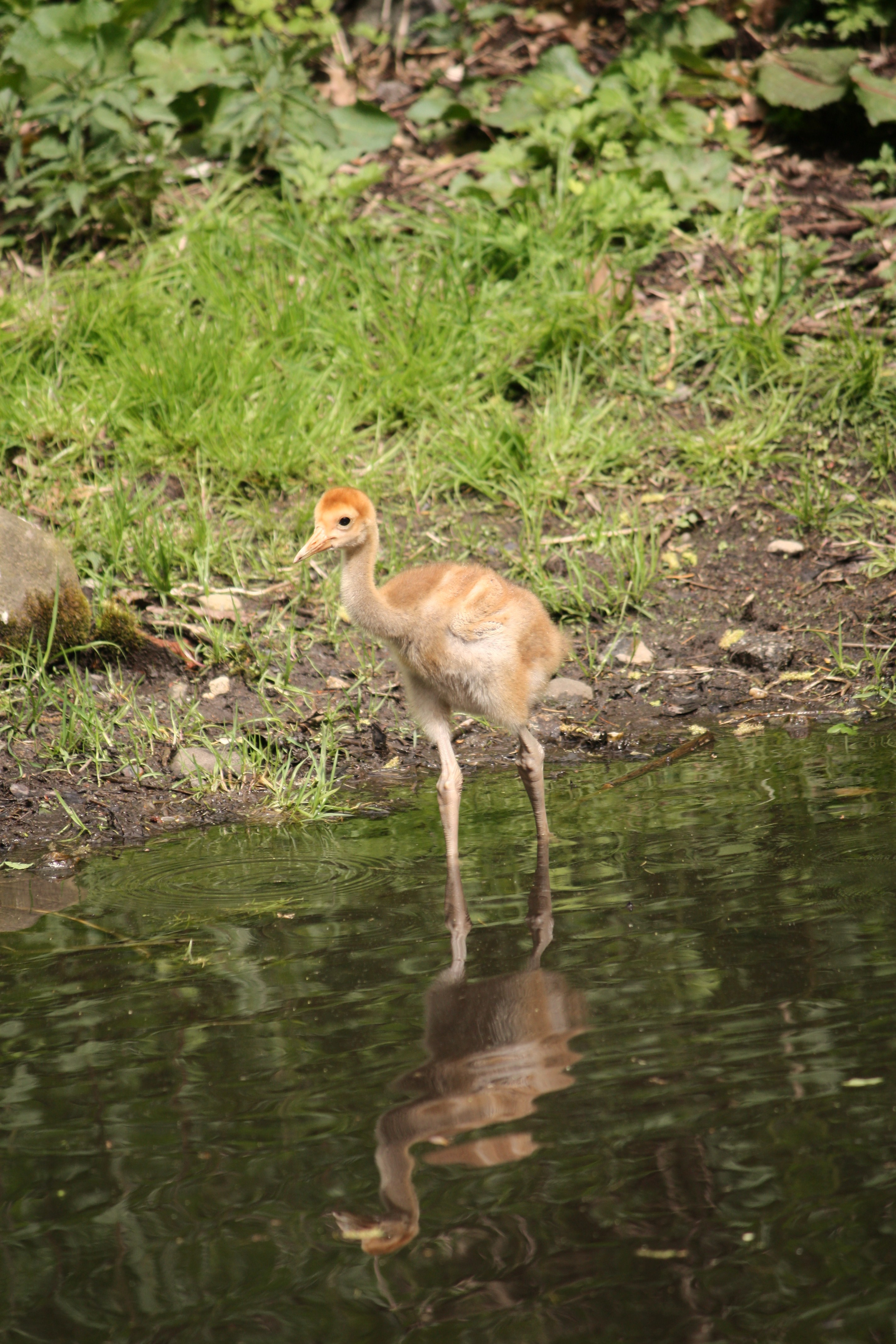 White-naped Crane (Grus vipio); juvenile. Bronx Zoo, New York City.